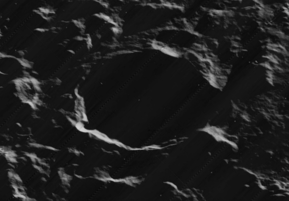 Oblique view of Lowell, on the far side of the moon, facing west.